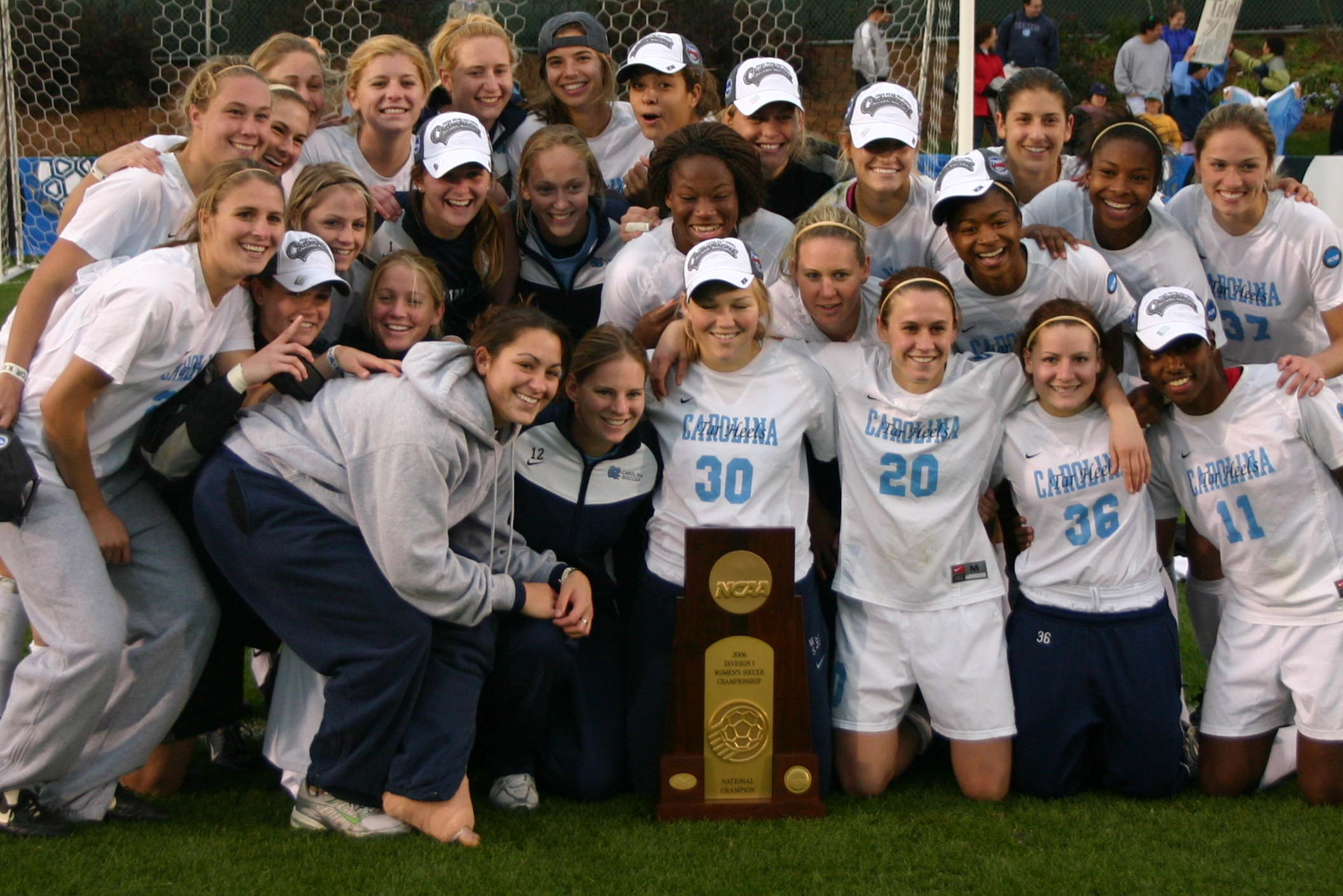 UNC North Carolina tarheels